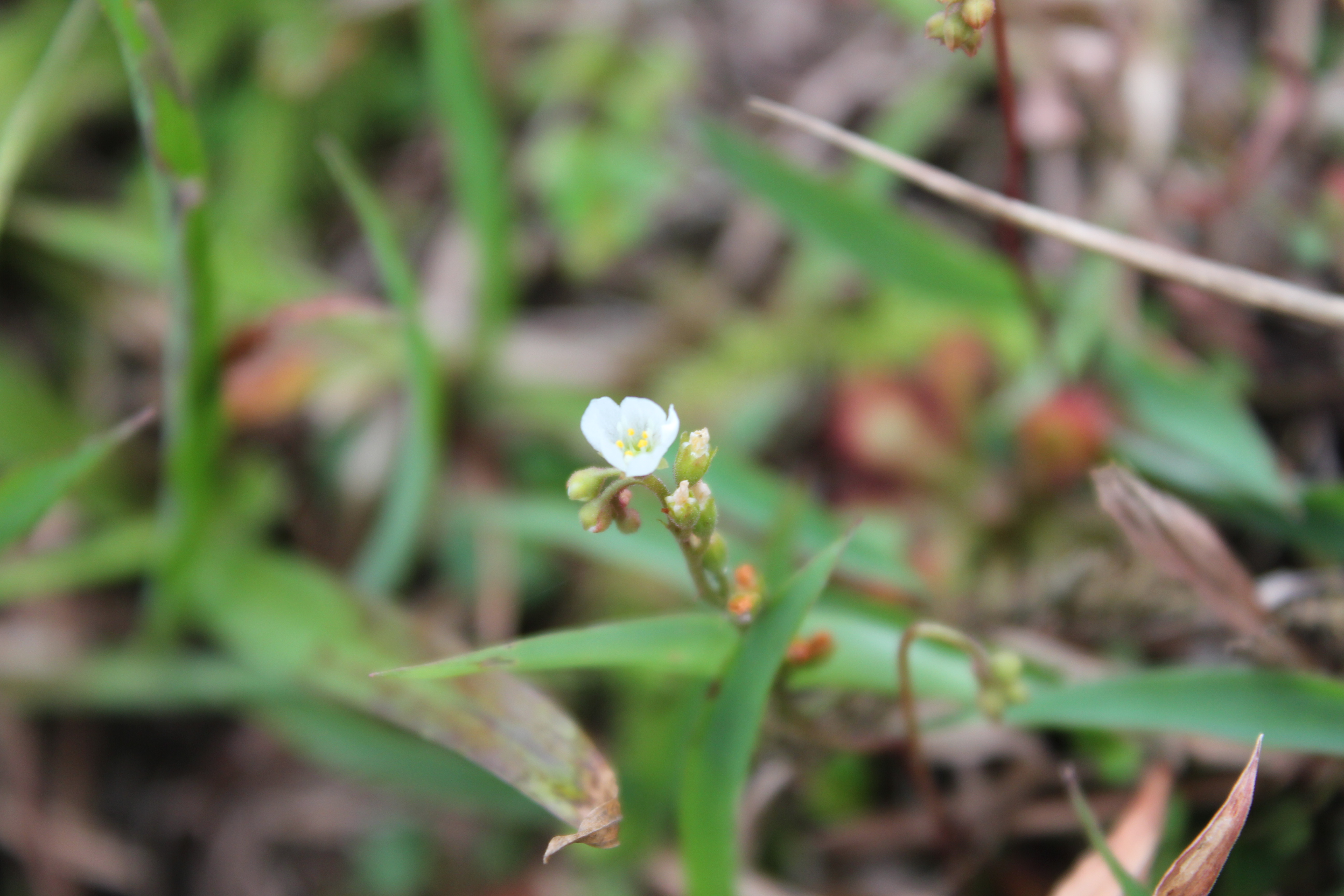 Pictured at Mt. Huangzui Ecological Conservation Area, Yanmingshan National Park, Taiwan.